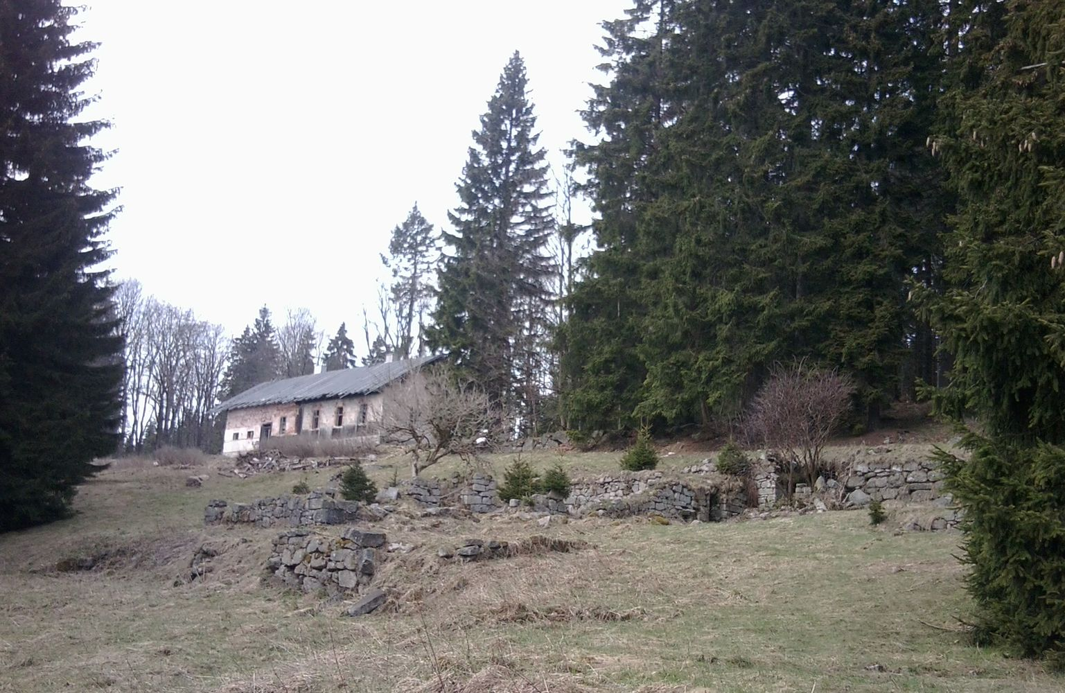 Ruins of buildings at Velflík (Wölfling) in the Czech Republic